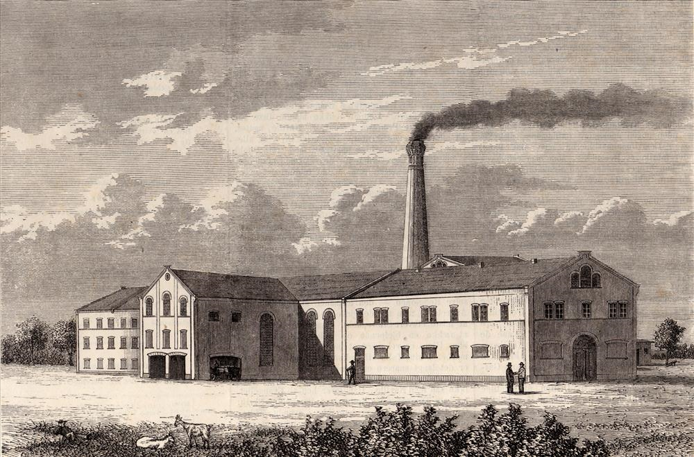 Højbygaard Sugar Factory at Holeby on Lolland, Denmark